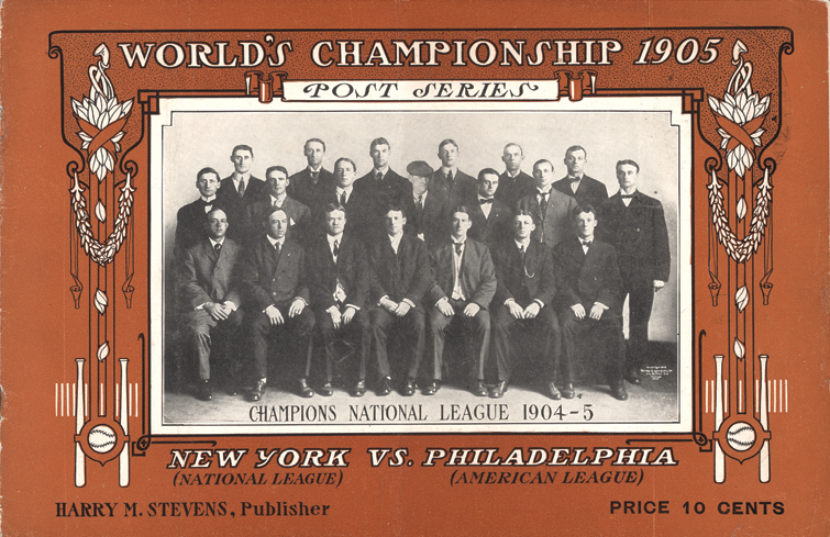 A program of the 1905 World Series, depicting the New York Giants, 1904 and 1905 National League Champions.